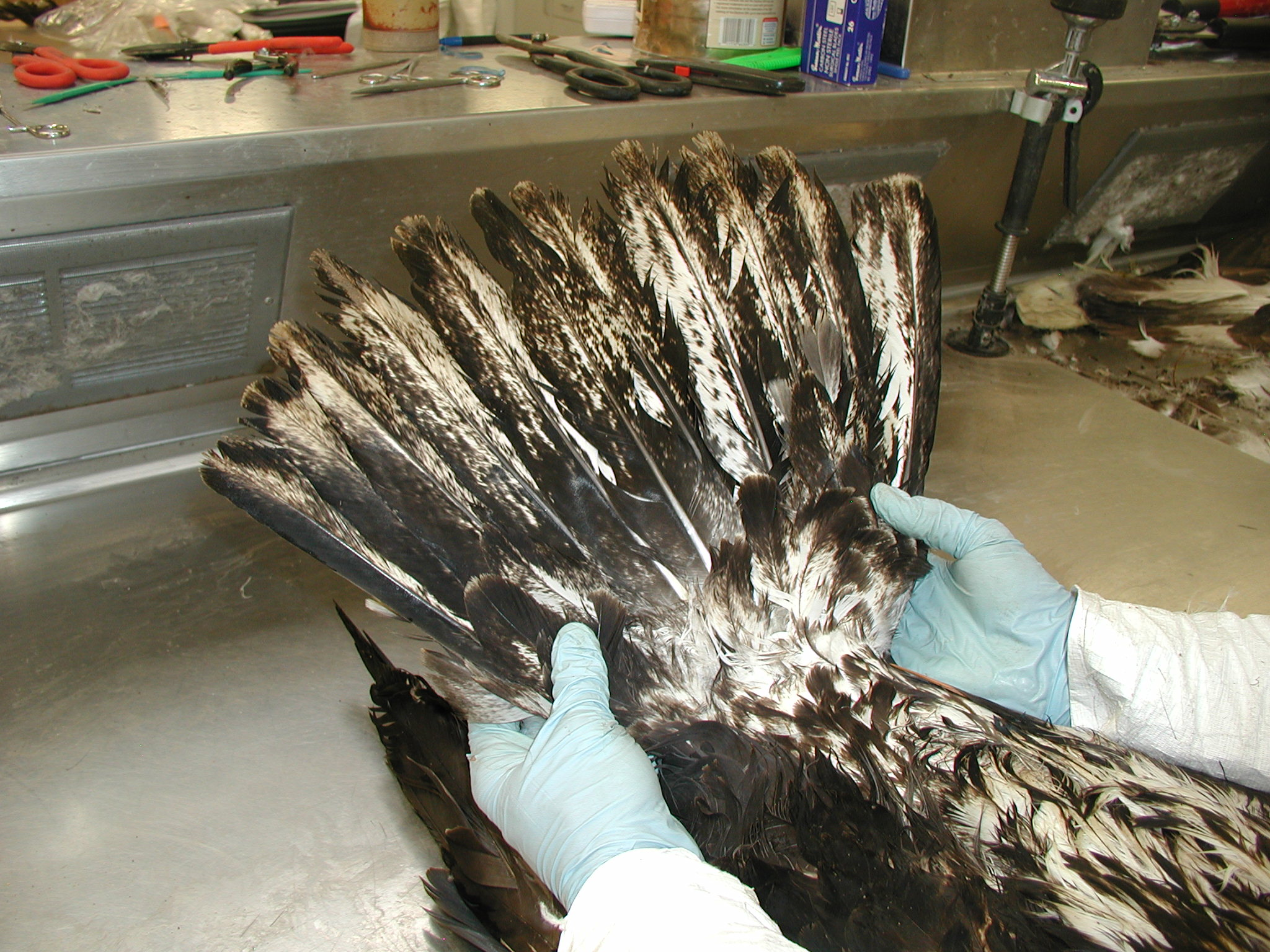 National Eagle Repository, US Fish and Wildlife Service. Staff processing a Bald Eagle (Haliaeetus leucocephalus)